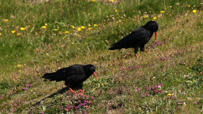 Chough (Pyrrhocorax pyrrhocorax)